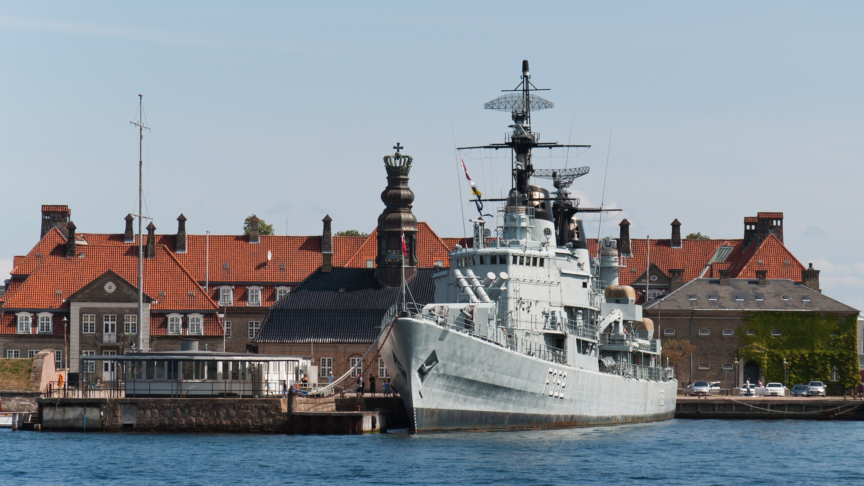 The HDMS Peder Skram (F352) museum ship of the Royal Danish Navy (Copenhagen Holmen).